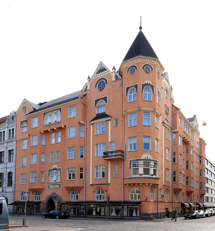 Torilinna, Fabianinkatu 13 / Eteläinen Makasiinikatu 5, Helsinki. Architects: Nyberg & Löppönen. Built 1906.